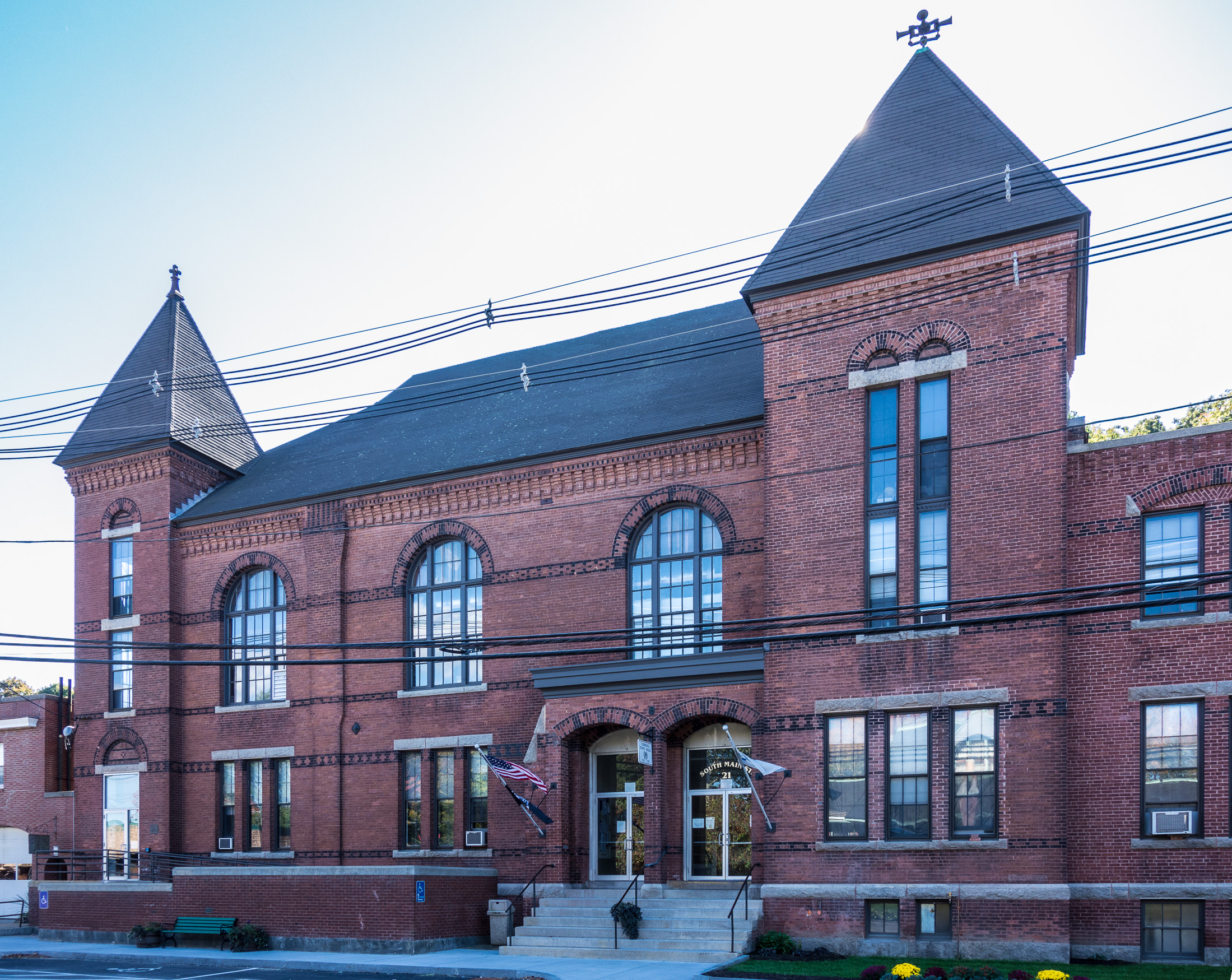 Uxbridge Town Hall, 45 S. Main St.